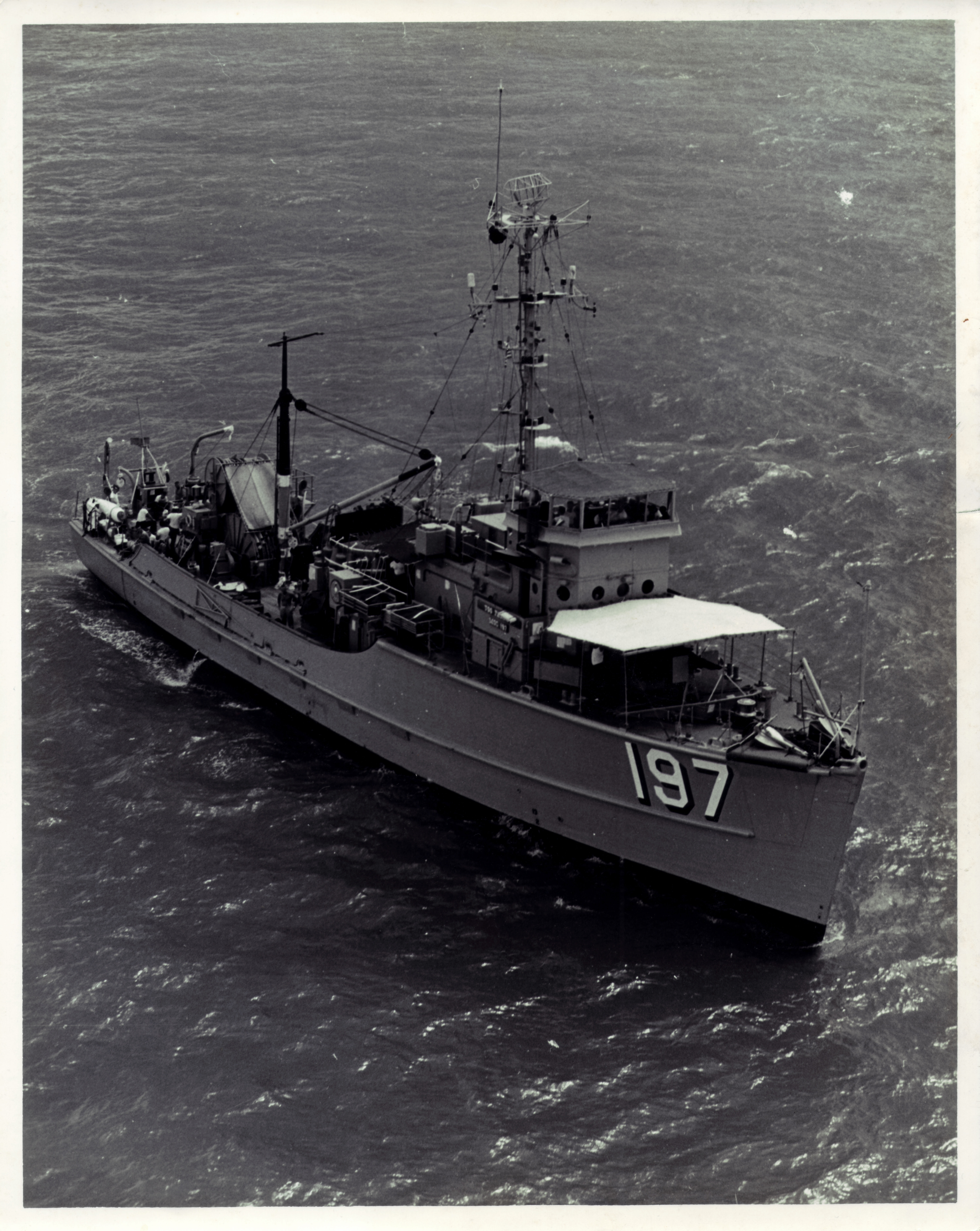 USS Parrot (MSC-197)